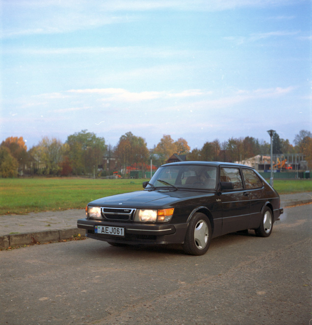 SAAB 900 Turbo 16 S, usually called "Aero" by SAAB enthusiasts, made in 1984. Camera: Rolleiflex Automat; Film: Fuji NPZ800; Scanner: Epson perfection 3200 photo; Taken on 2005-10-23; 08:30 in Druskininkai, Lithuania